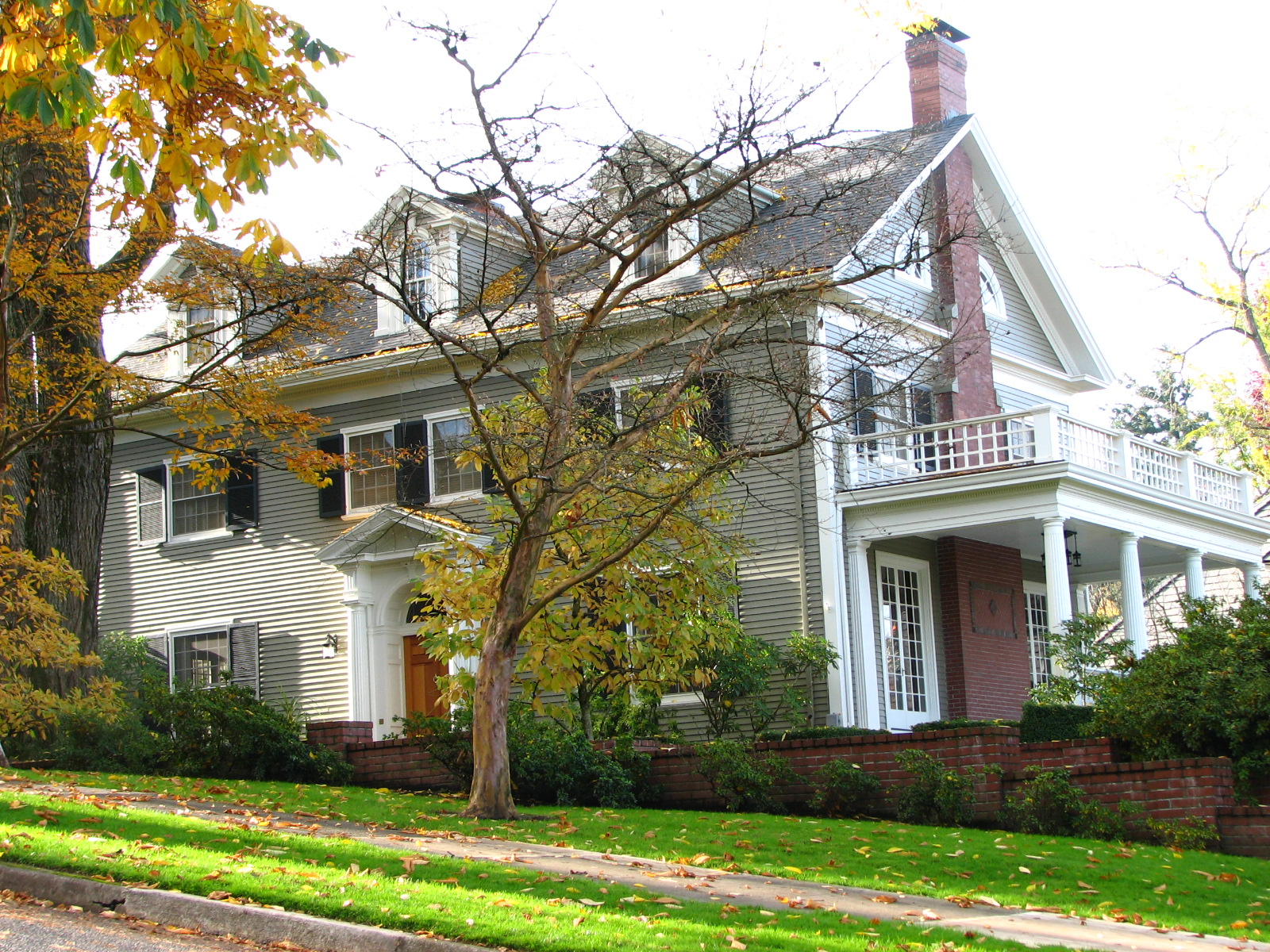 The historic James E. Wheeler House (built 1909), located at 2417 Southwest 16th Avenue in Portland Oregon, United States, is listed on the US National Register of Historic Places.